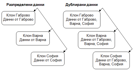 Physical distribution of distributed database